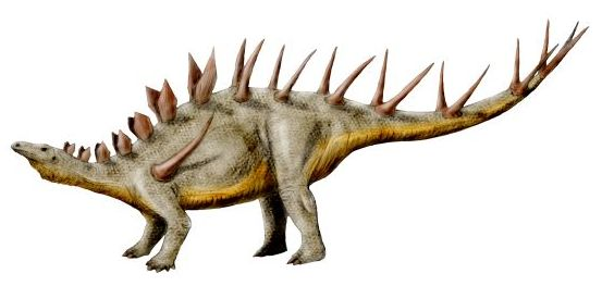 Kentrosaurus